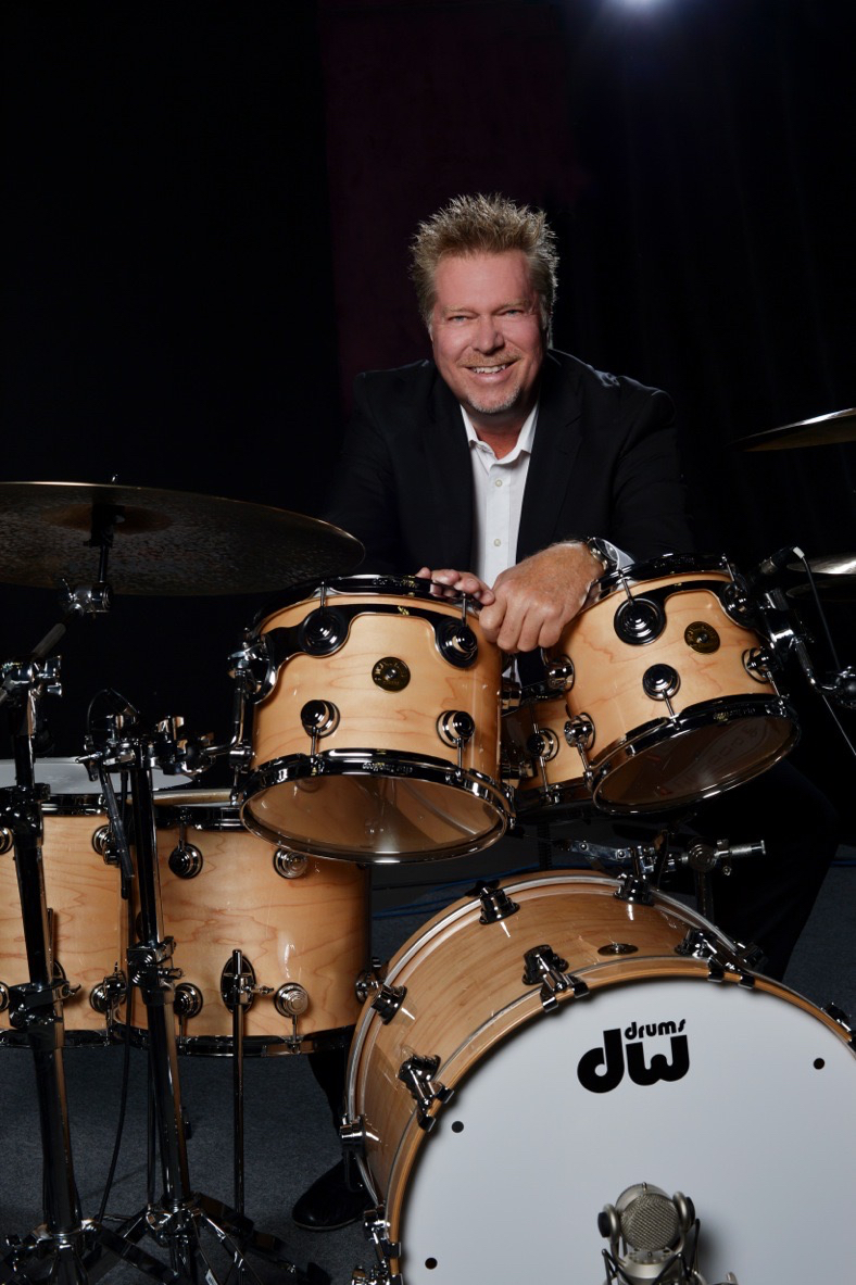 John "JR" Robinson pictured with a DW drumkit in 2014. Photo by Rob Shanahan.